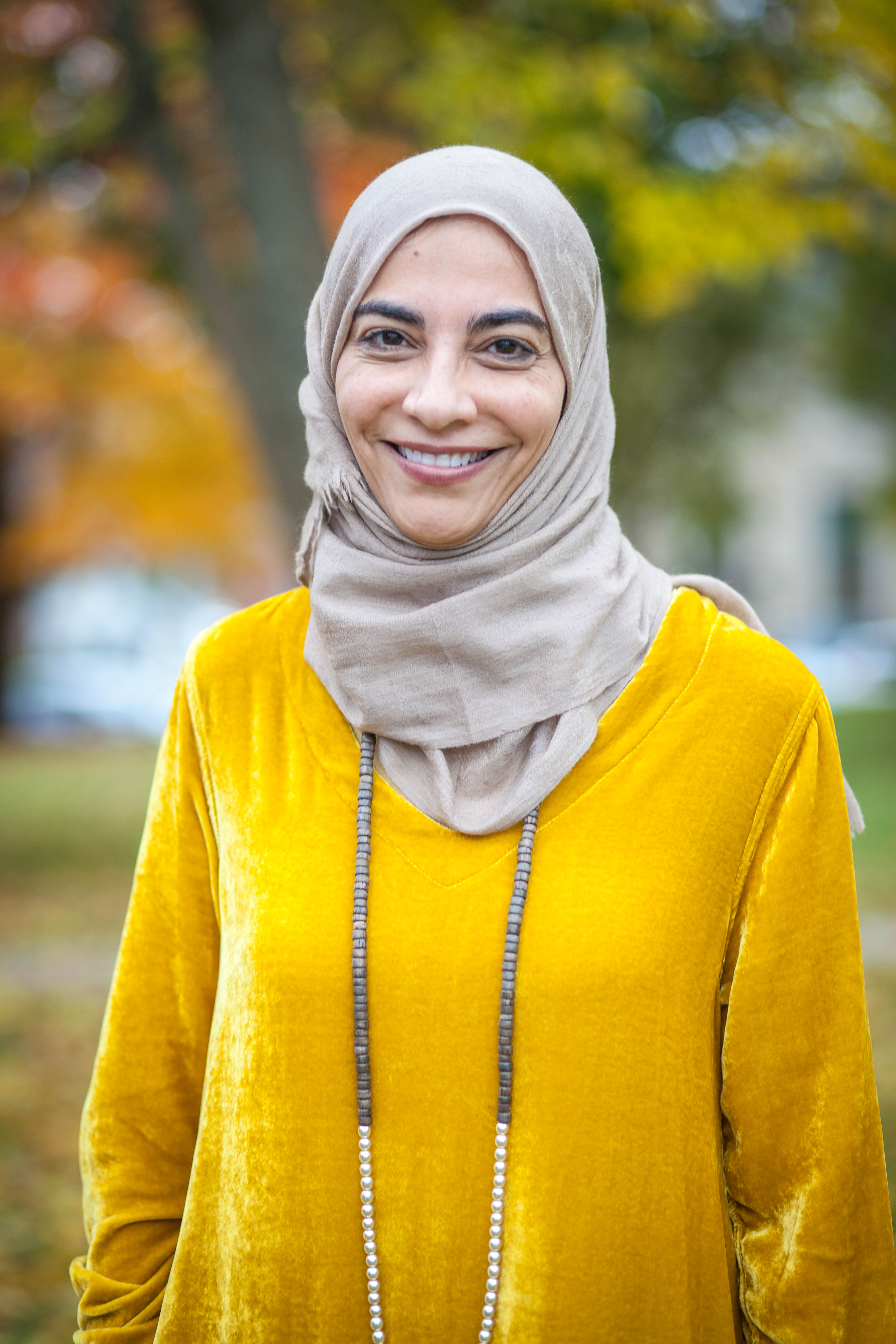 Photo by Thatcher Cook for PopTech